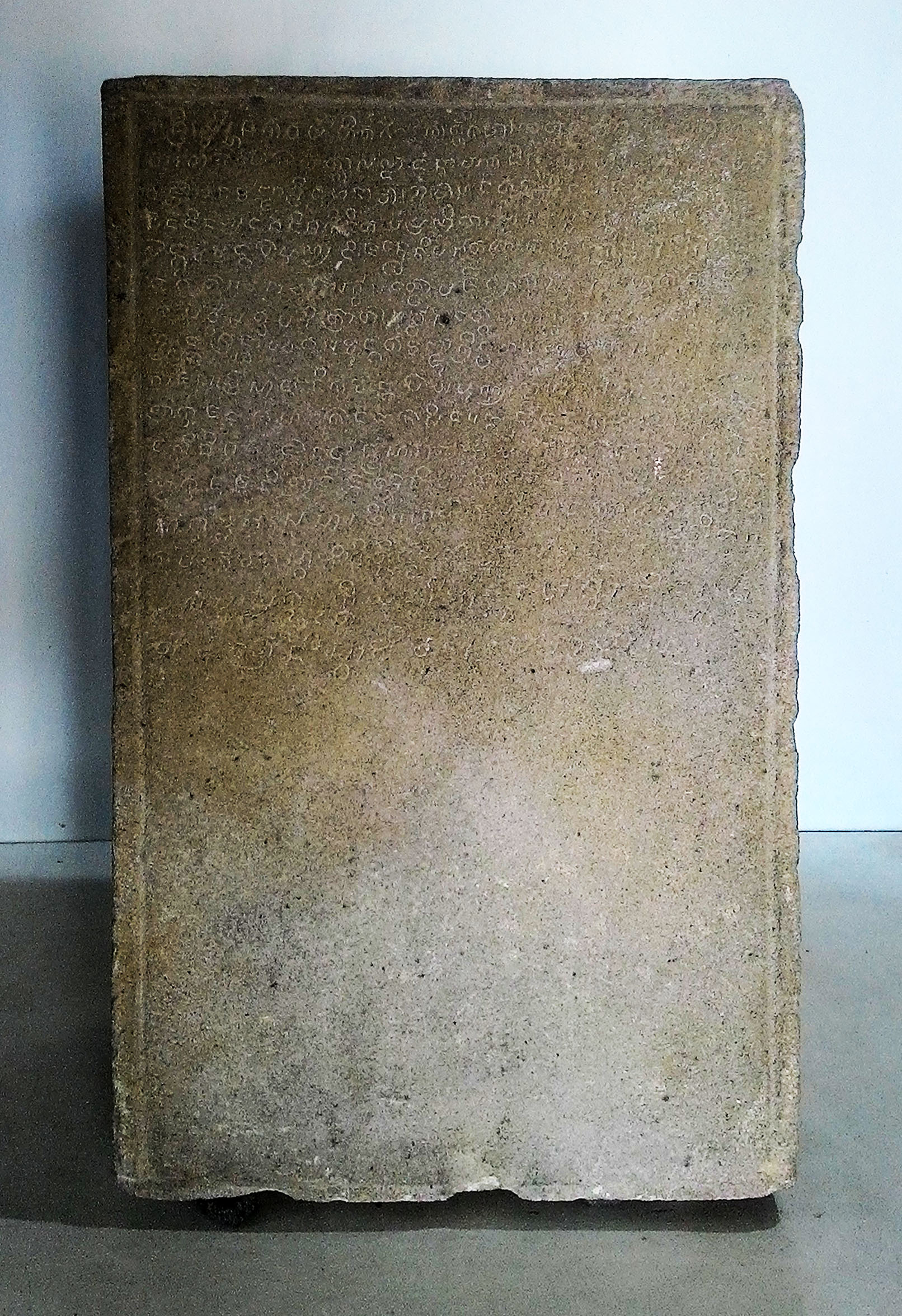 Manjusrigrha inscription, dated 714 Saka (792 CE), discovered in 1960 at the west side perwara temple no. 202 (row 4 No. 37) of Sewu Buddhist temple compound near Prambanan, Klaten Regency, Central Java, Indonesia. Now the inscription is stored in Studio Manjusrigrha or Candi Sewu Renovation Museum on the north side of Candi Sewu. The inscription with is written in Old Javanese script in Old Malay language with traces of Old Javanese and Sanskrit vocabularies. It is made of andesite stone weighing 200 kilograms. The inscription mentioned about the construction of a temple named Manjusrigrha (house of Manjusri) dedicated to Manjusri boddhisattva, linked to Candi Sewu.